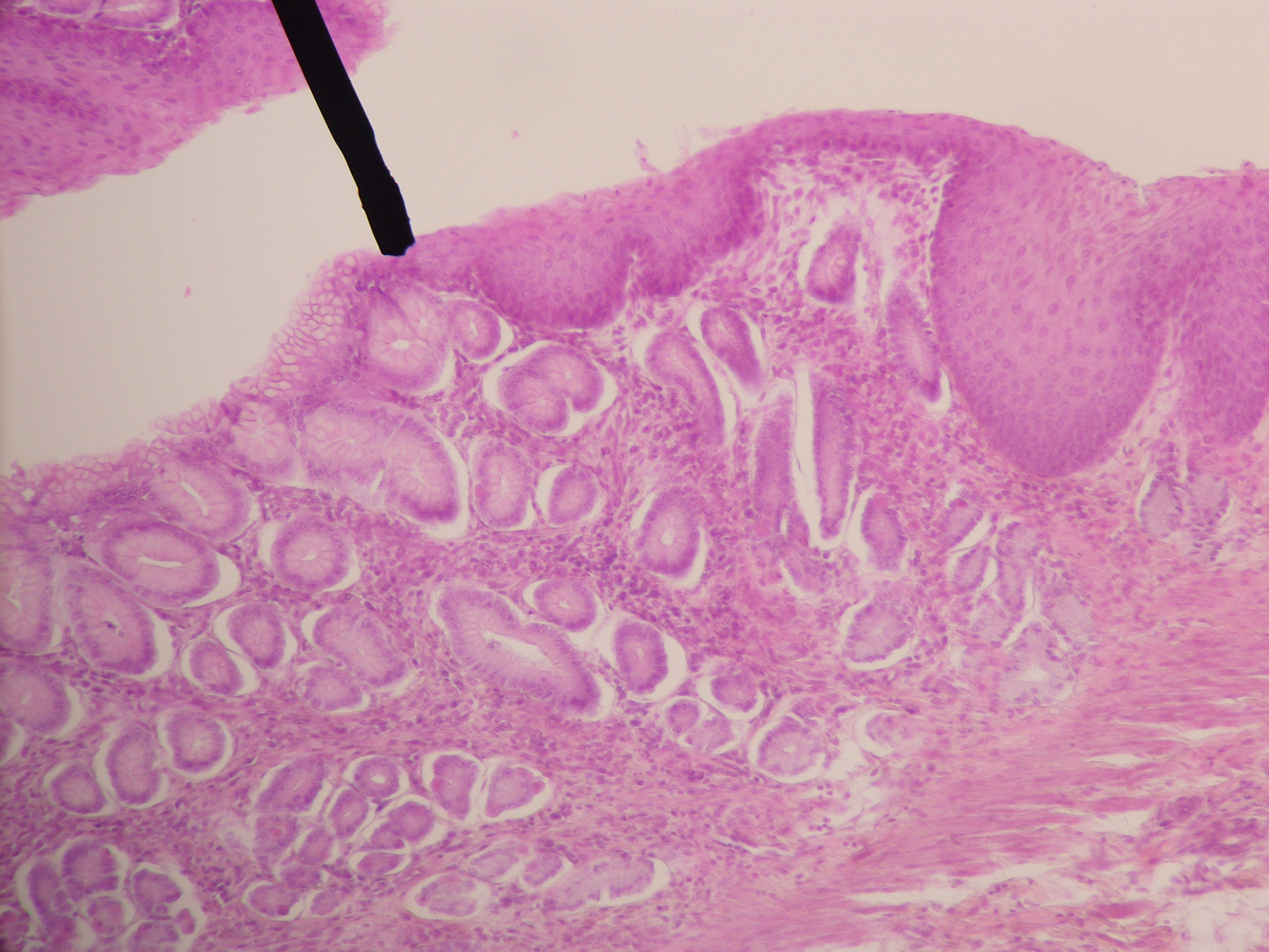 Author's own picture. Digital camera shot of human Gastro-esophageal Junction through a microscope